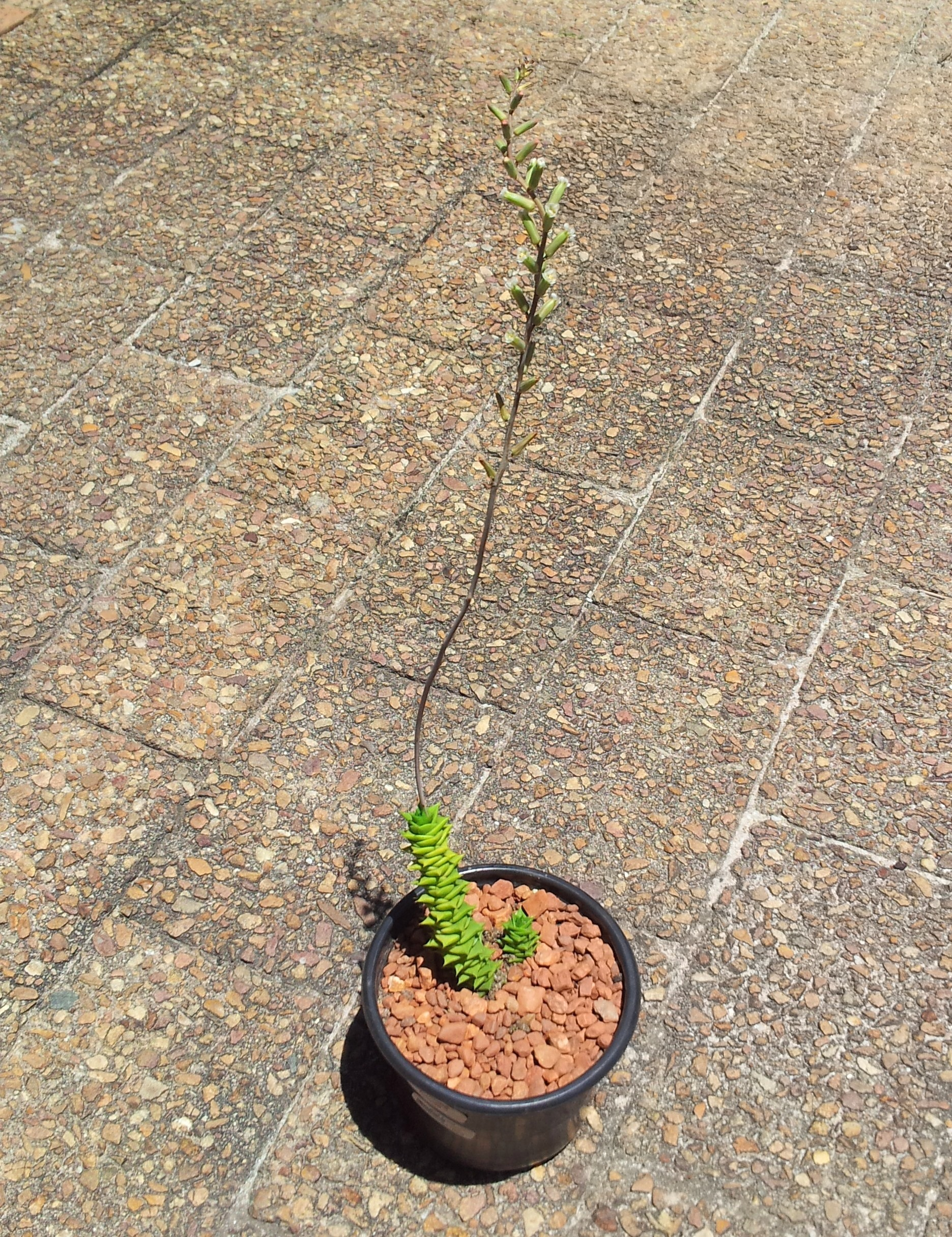 Astroloba foliolosa in flower